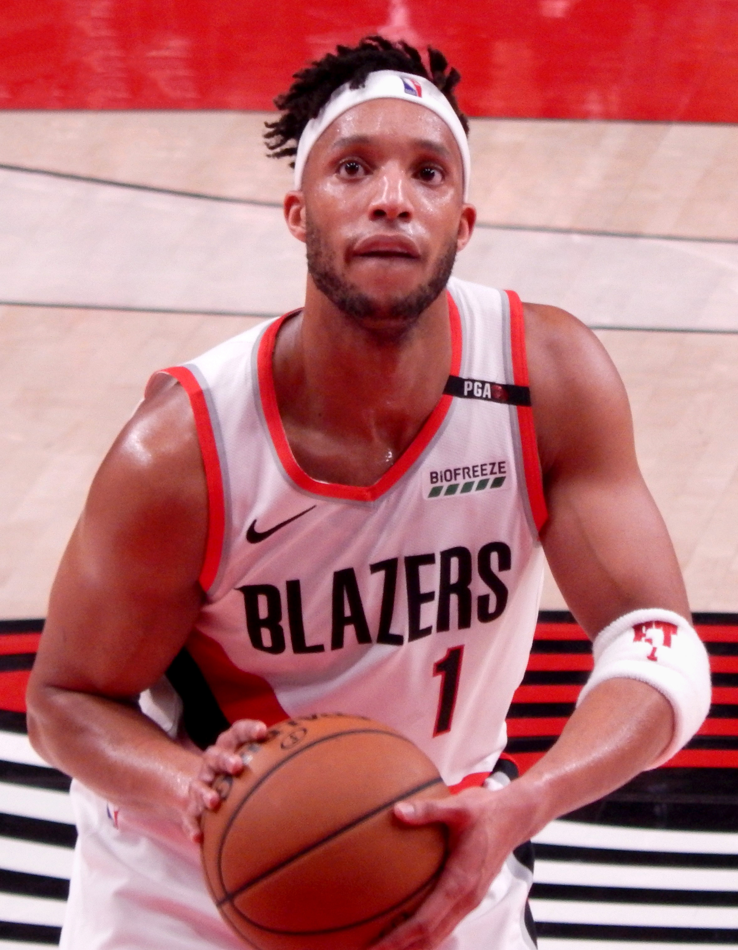 Evan Turner #1 of the Portland Trail Blazers against the Cleveland Cavaliers on January 16, 2019 at Moda Center in Portland, Oregon.